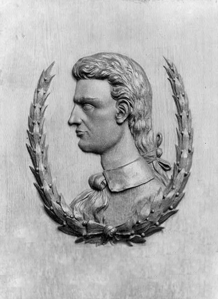 Francis Daniel Pastorius, head-and-shoulders portrait, left profile, bas-relief, founder of Germantown, Pa.